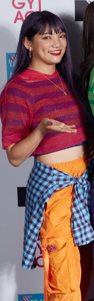 A portrait of Anna Suda, member Japanese girl group E-girls and Happiness.